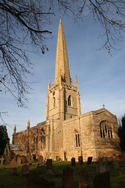 St Vincent's parish church, Caythorpe, Lincolnshire, seen from the southeast